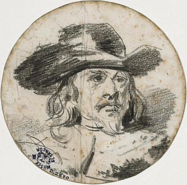 Portrait of Frans Banning Cocq from the Night Watch, Jean-Honoré Fragonard, black chalk on paper, c. 1761-1767, Musée des Beaux-Arts et d’Archéologie de Besançon